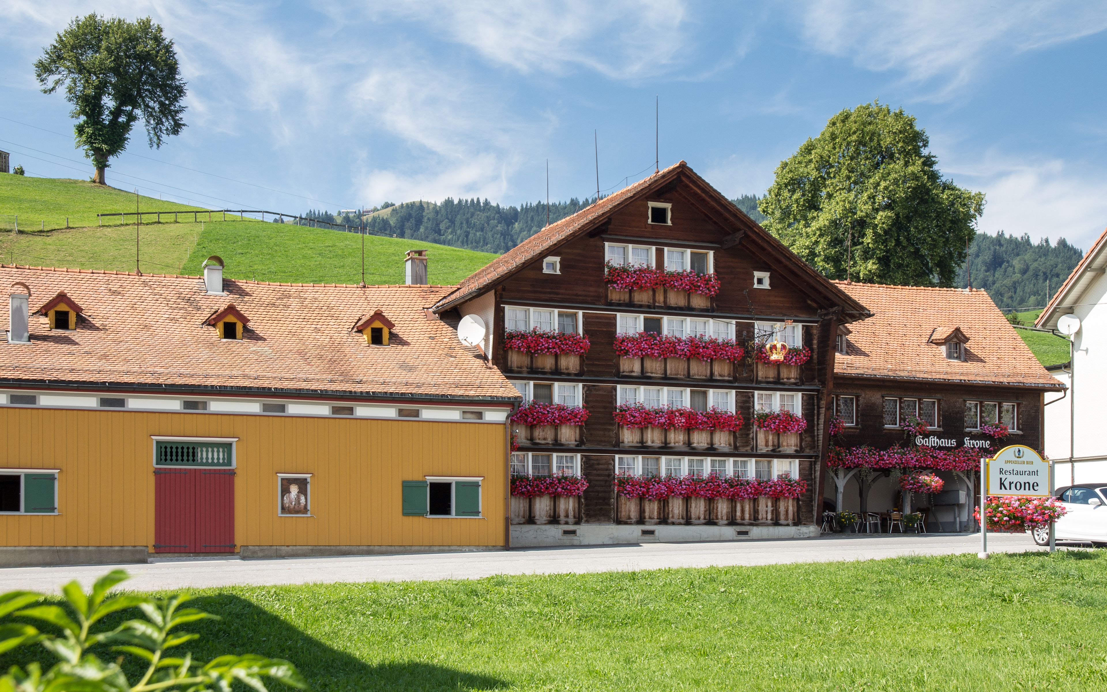 Typical buildings of canton of Appenzell: Gasthaus Krone (Crown Inn)